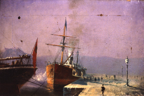 Port of Patras